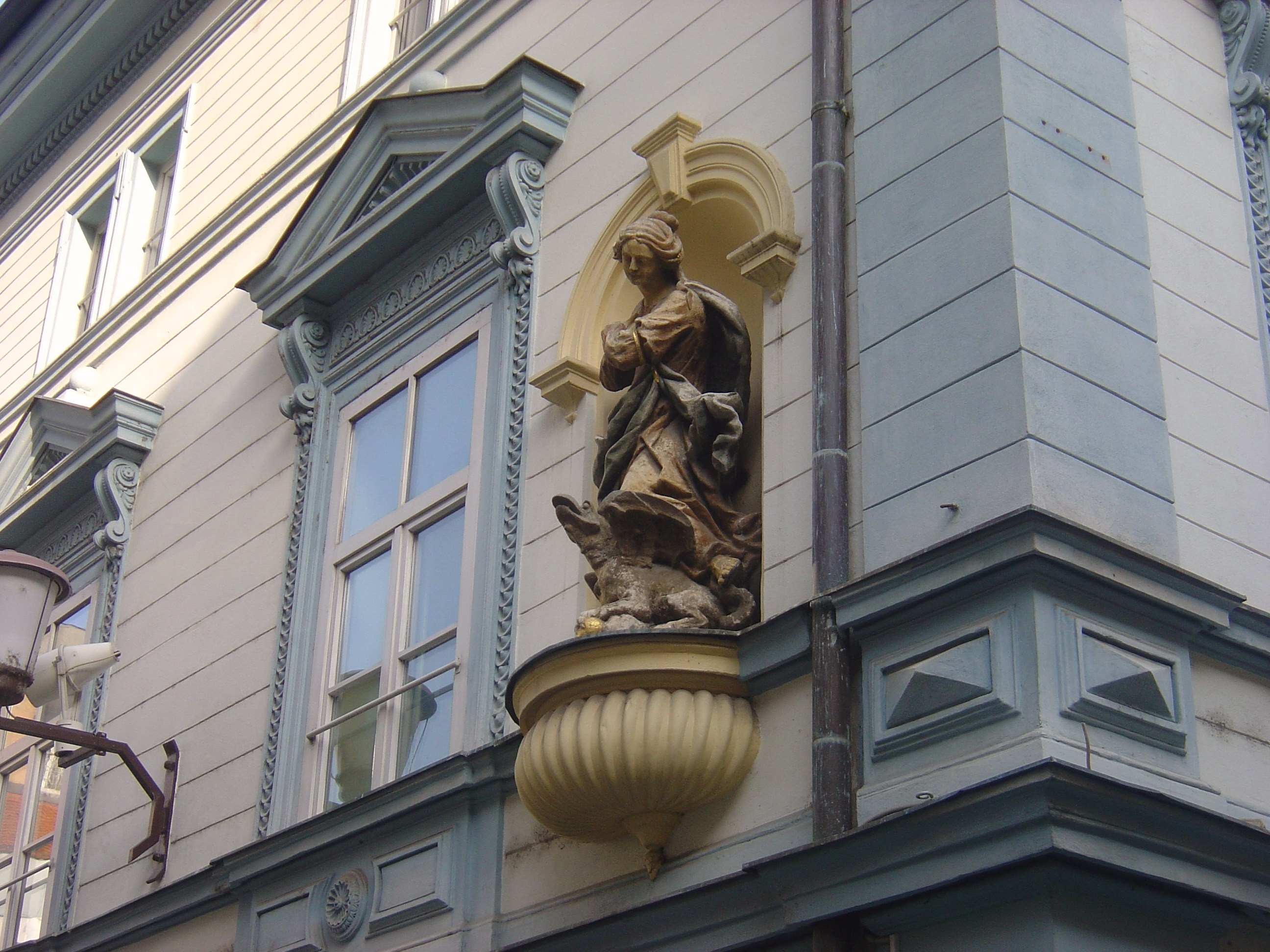 Uni Hotel, formerly Zamorc Hotel at 30 Gentry Street in Maribor, Slovenia. The hotel was built in the neo-Renaissance style in 1896, whereas the statue of the Immaculata kneeling on the Earth's sphere and pressing to the ground a dragon, was created in ca. 1725.